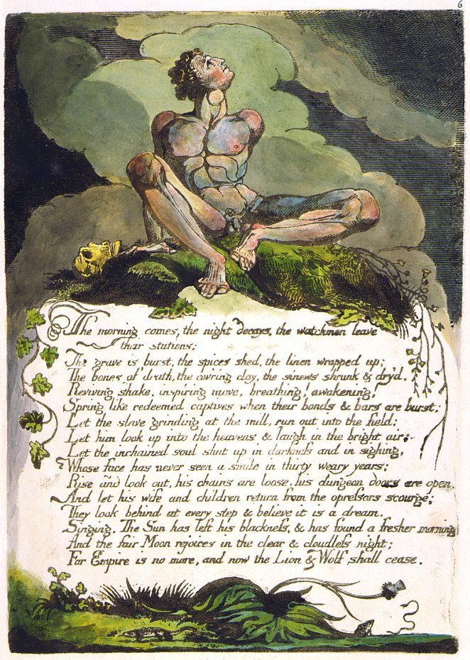 Plate from America a Prophecy, copy A, in the collection of the Morgan Library.